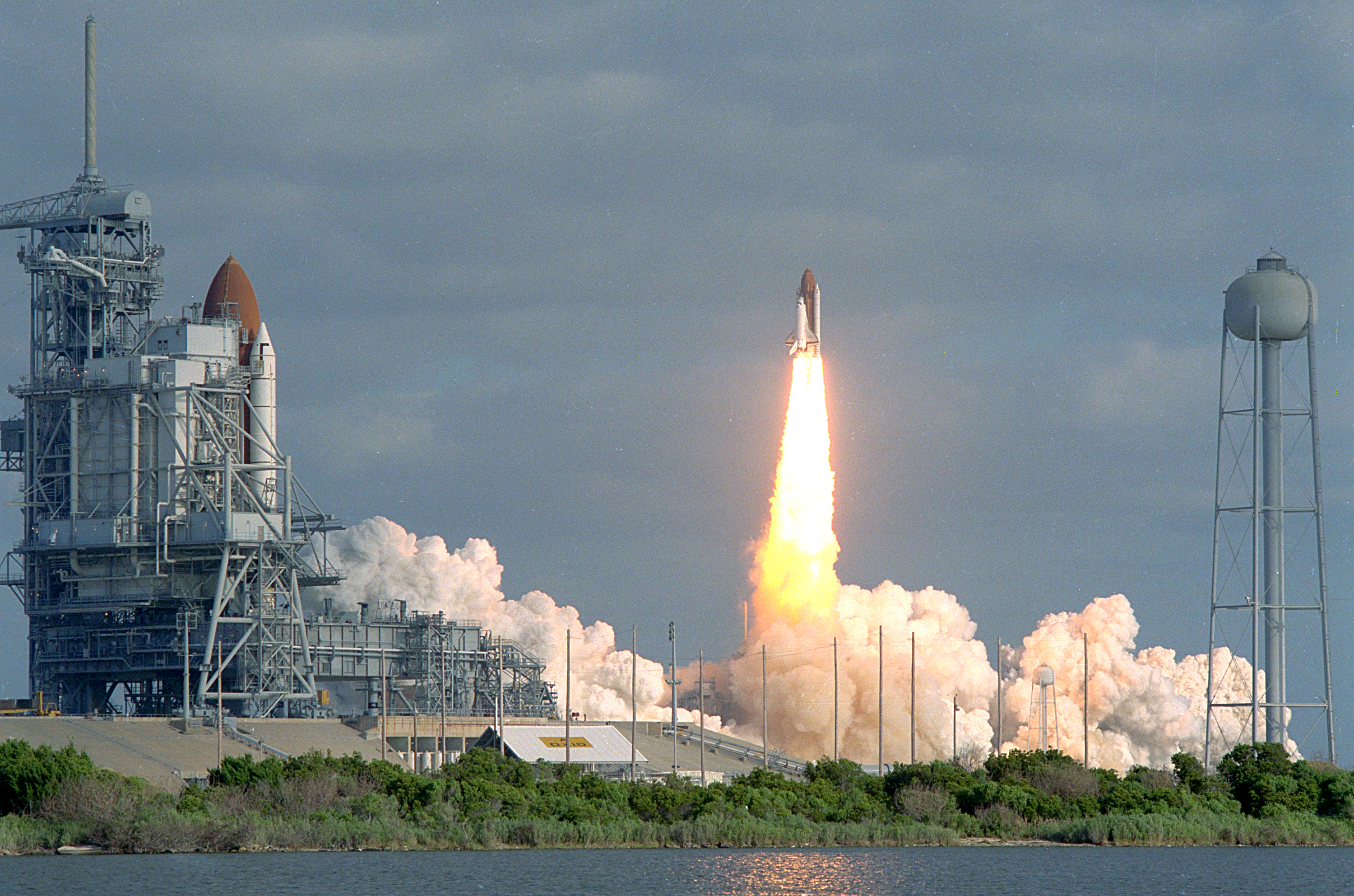 The Space Shuttle Columbia on Pad 39A during the picture-perfect ascent of sister ship Discovery after lift off of STS-31. This was the first time since January 1986 that there was a Shuttle on each pad, which are separated by 1.6 miles. Discovery, carrying a five-member crew and the Hubble Space Telescope, lifted off at 8:34 a.m. EDT, April 24. Columbia, with its Astro-1 observatory, is scheduled for launch in May.